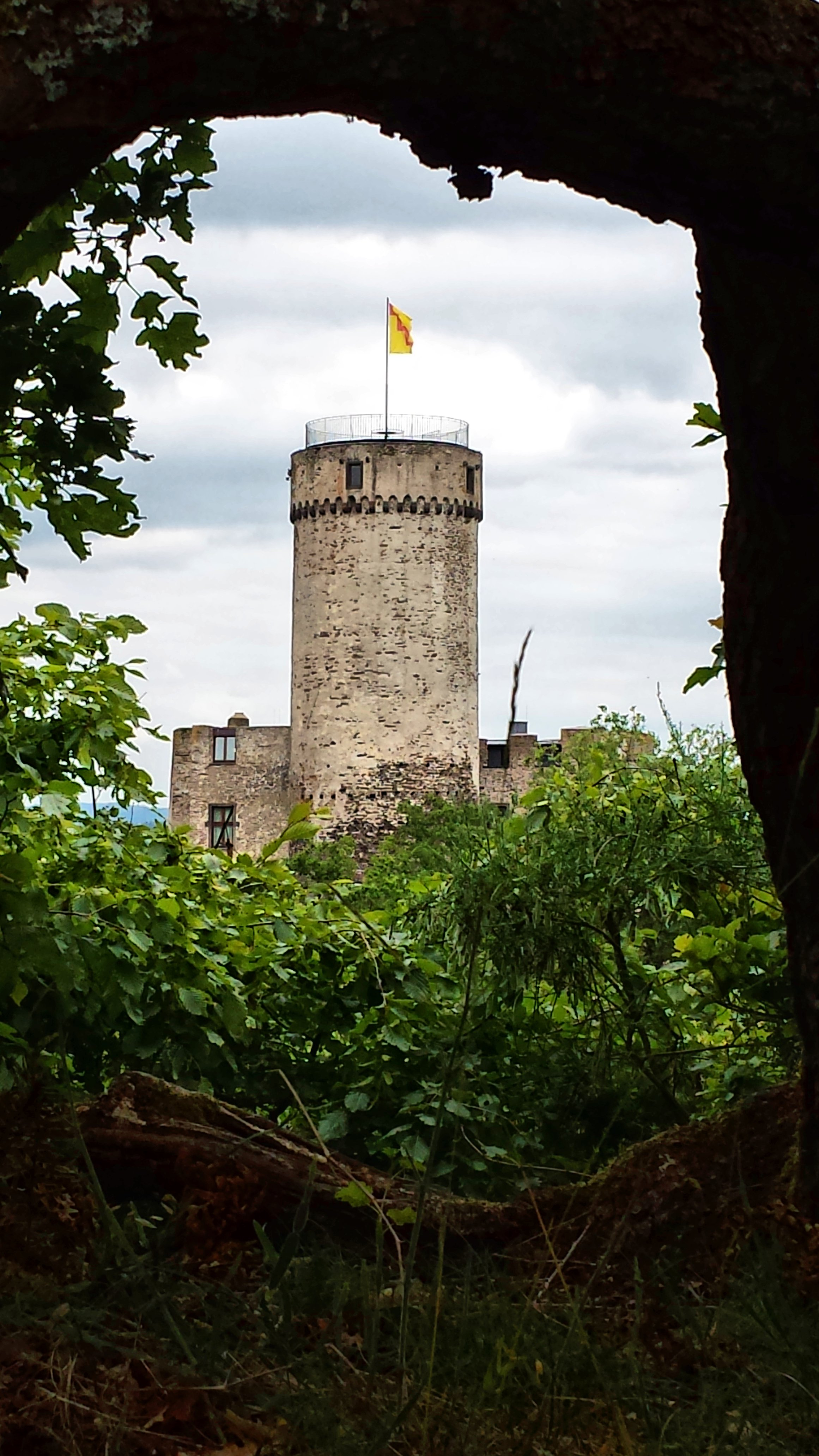 Castle Pyrmont